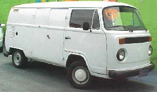 Picture of the Brazilian version of the Vw Type 2, panel van.